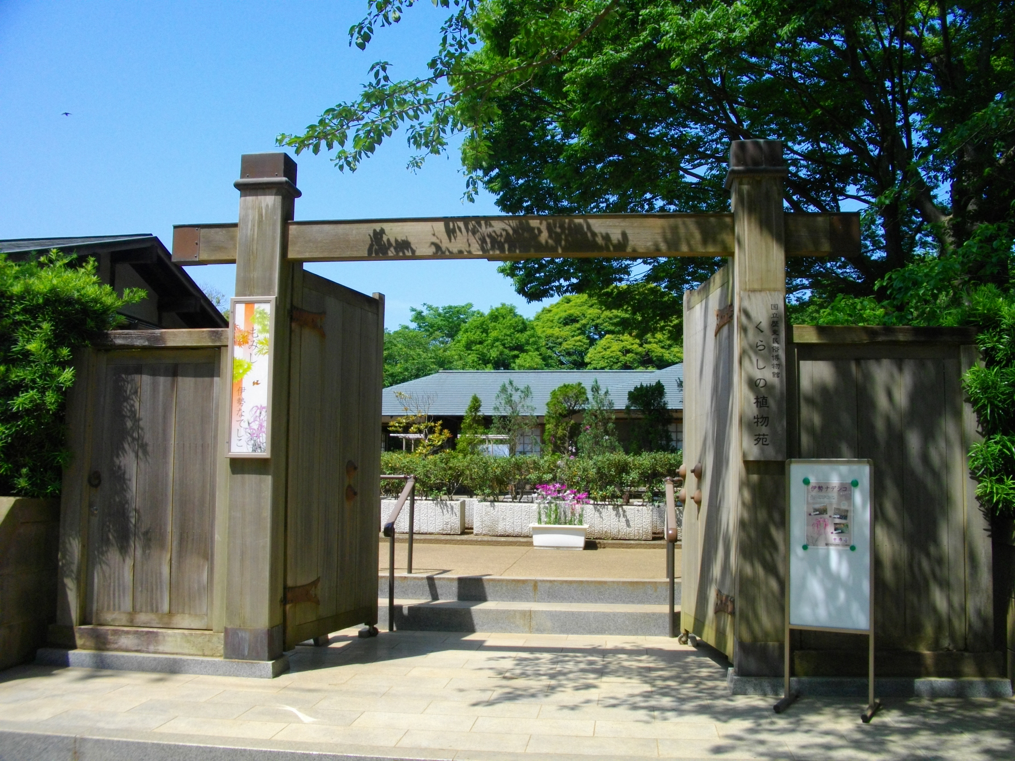 Botanical Garden of Everyday Life